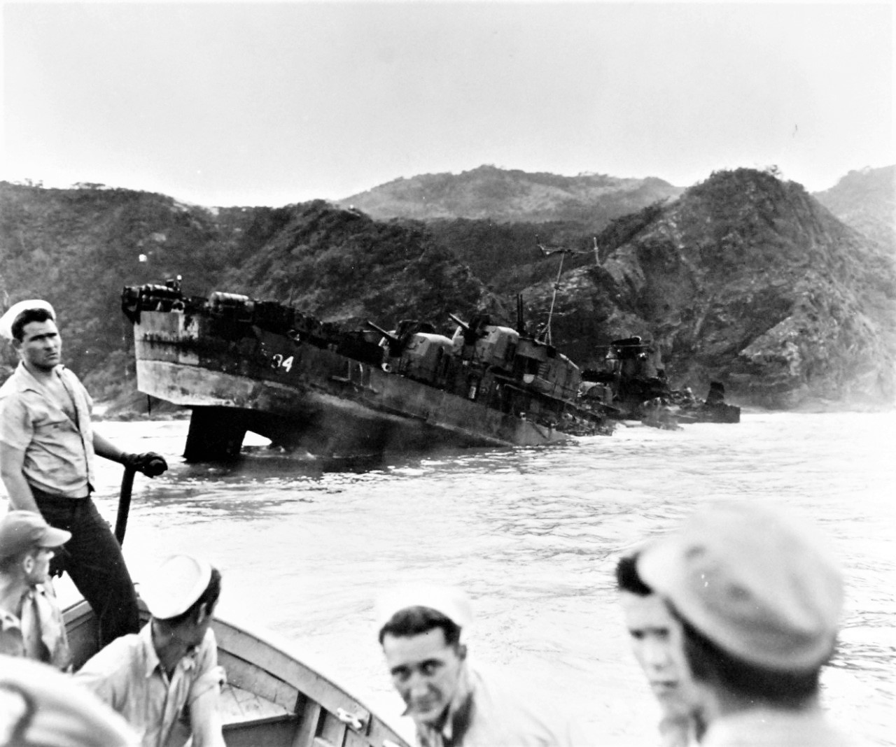 Halligan patrolling in vicinity of Okinawa, March 26, 1945, when she struck a mine which caused her forward magazines to explode breaking the ship in two resulting in a high percentage of casualties. Shown: Part of crew in small boat near the wrecked destroyer, March 26, 1945.